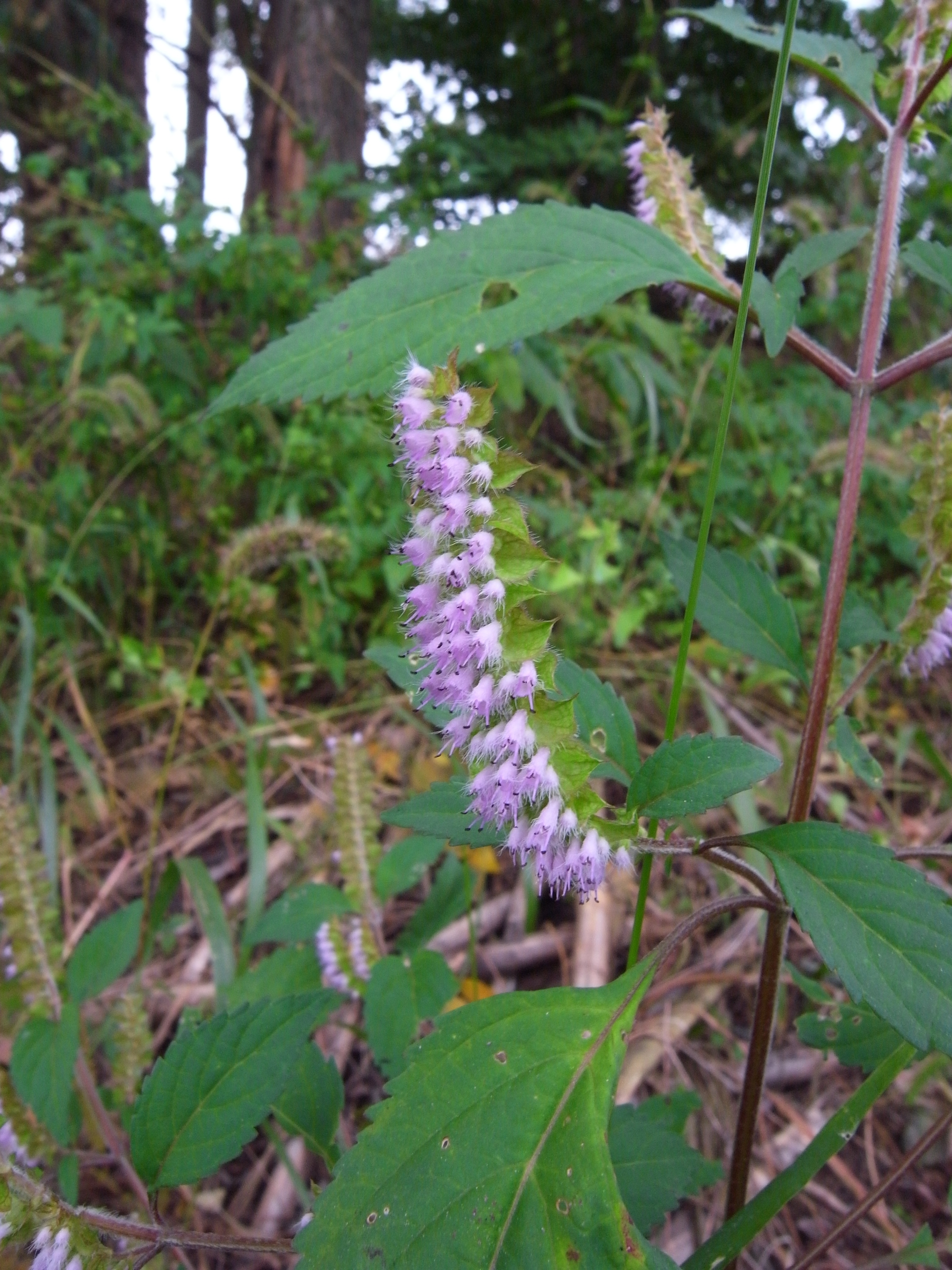 Elsholtzia ciliata